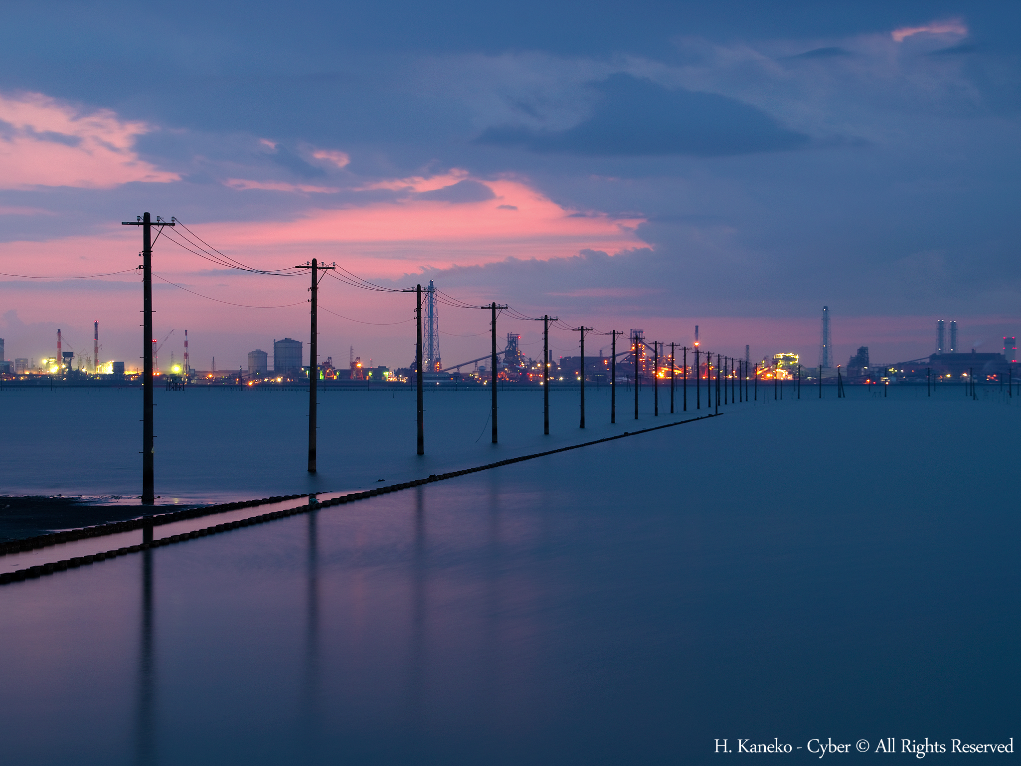 黄昏の江川海岸(Egawa coast in twilight) 04 Oct, 2015